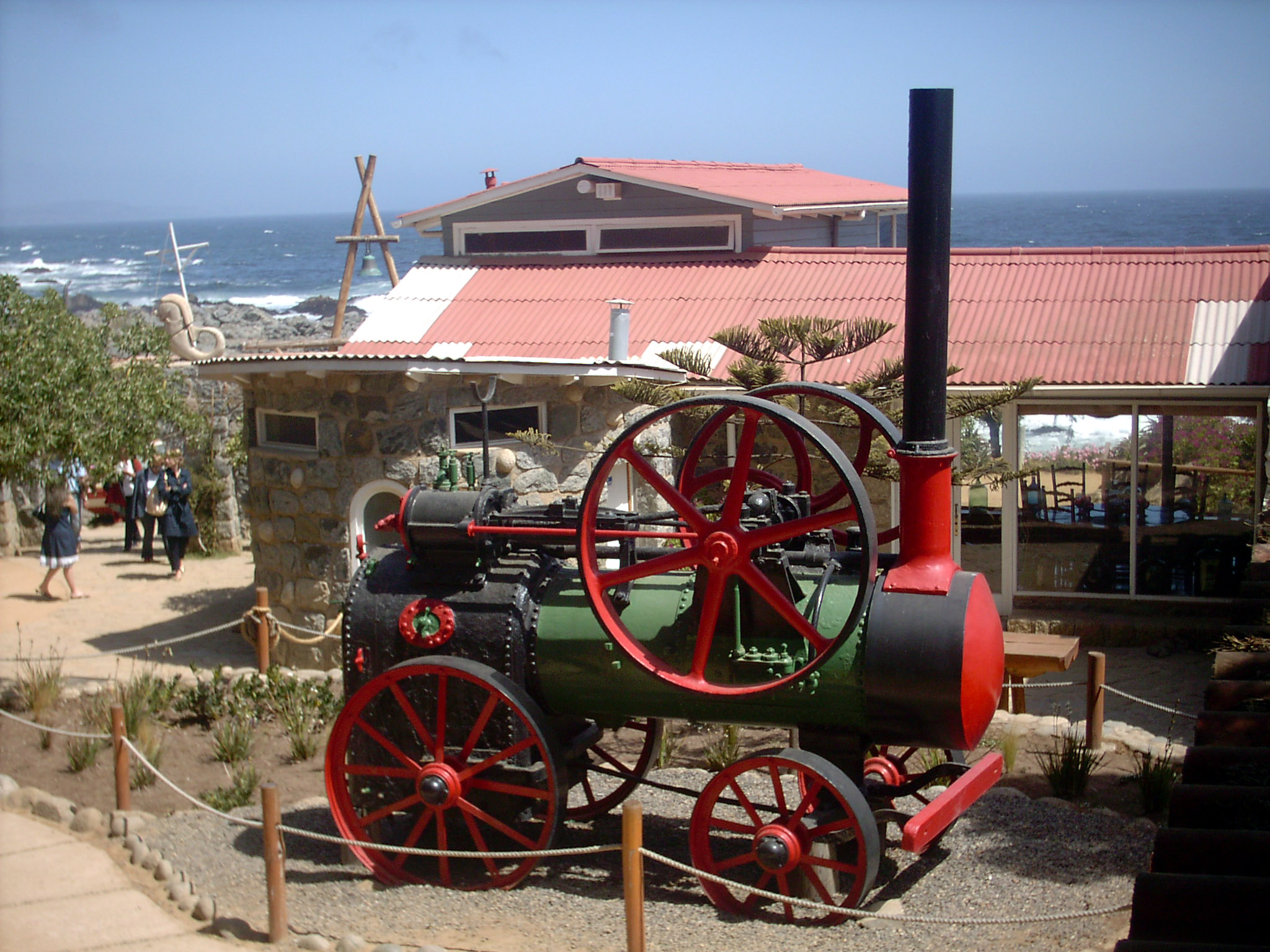 Neruda's house